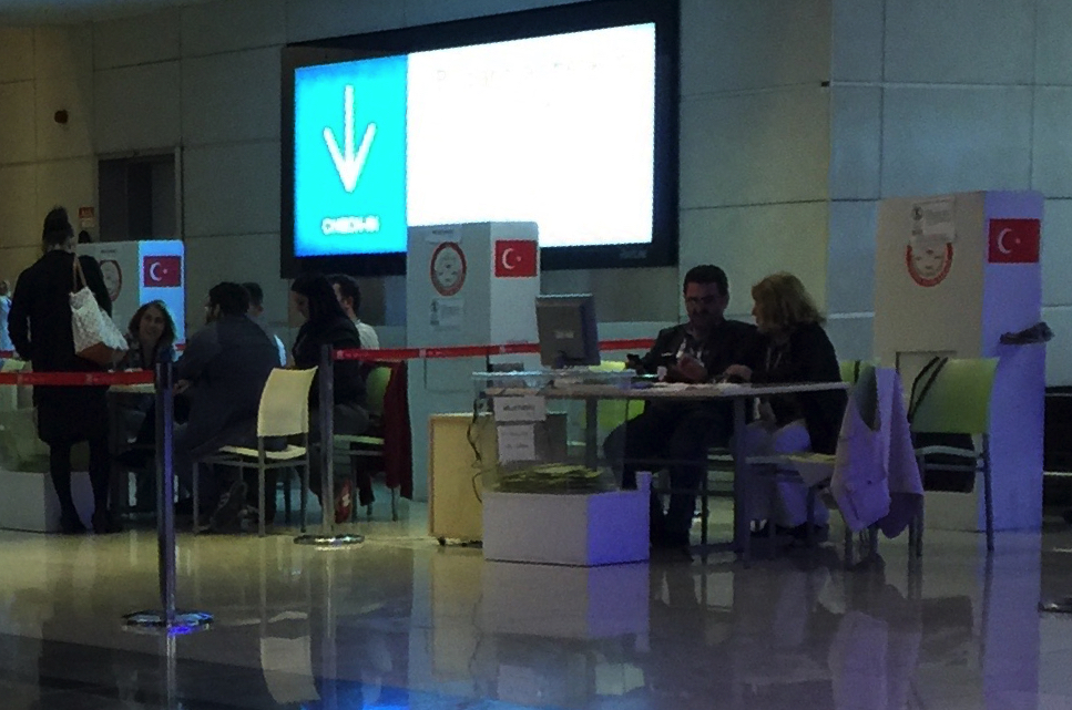 Voting taking place at Sabiha Gökçen International Airport in Istanbul for the Turkish general election of 7 June 2015